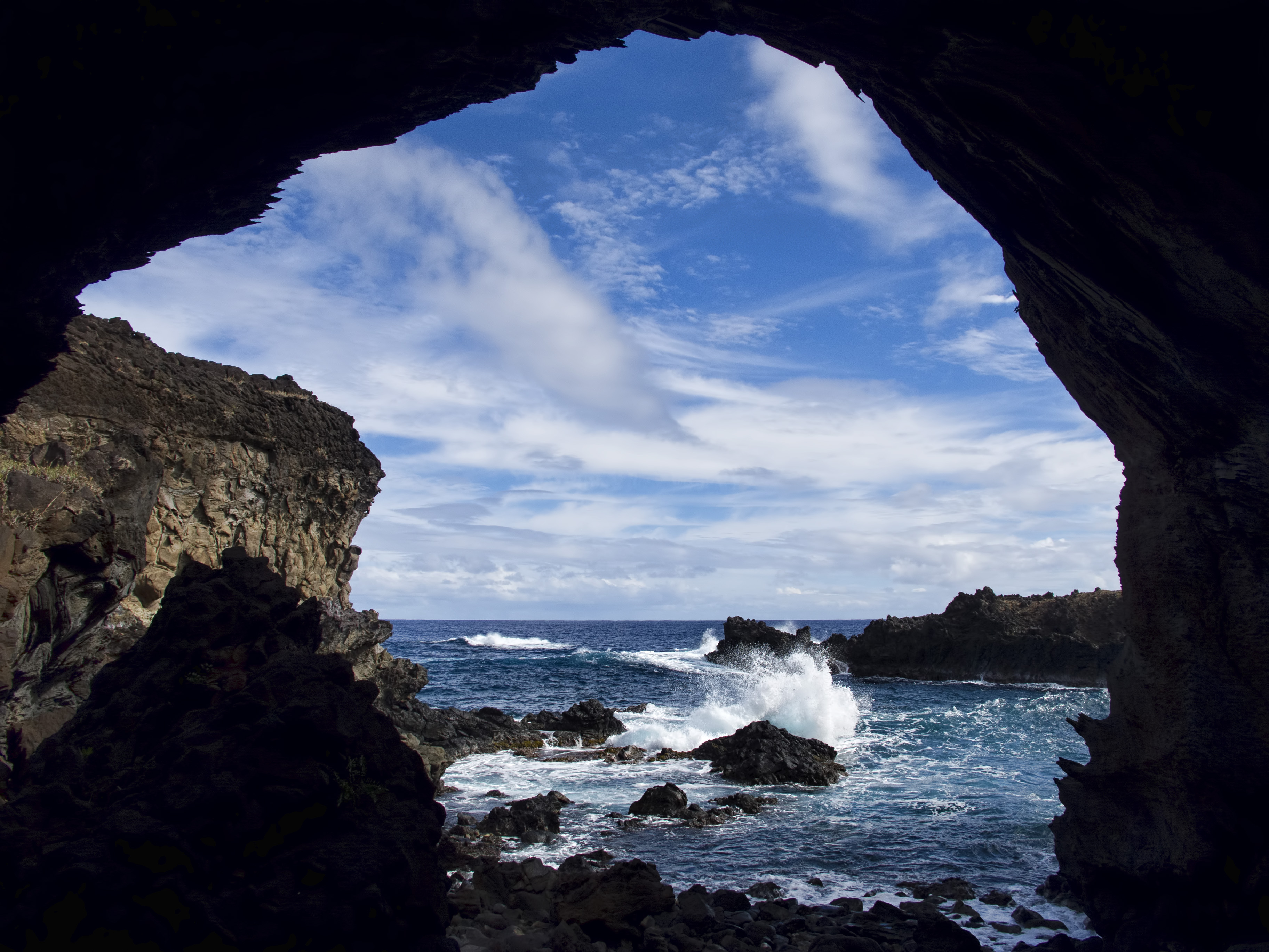 View from the coastal cave of Ana Kai Tangata. On Google Earth: Ana Kai Tangata (cave) 27° 9'40.11"S, 109°26'30.35"W